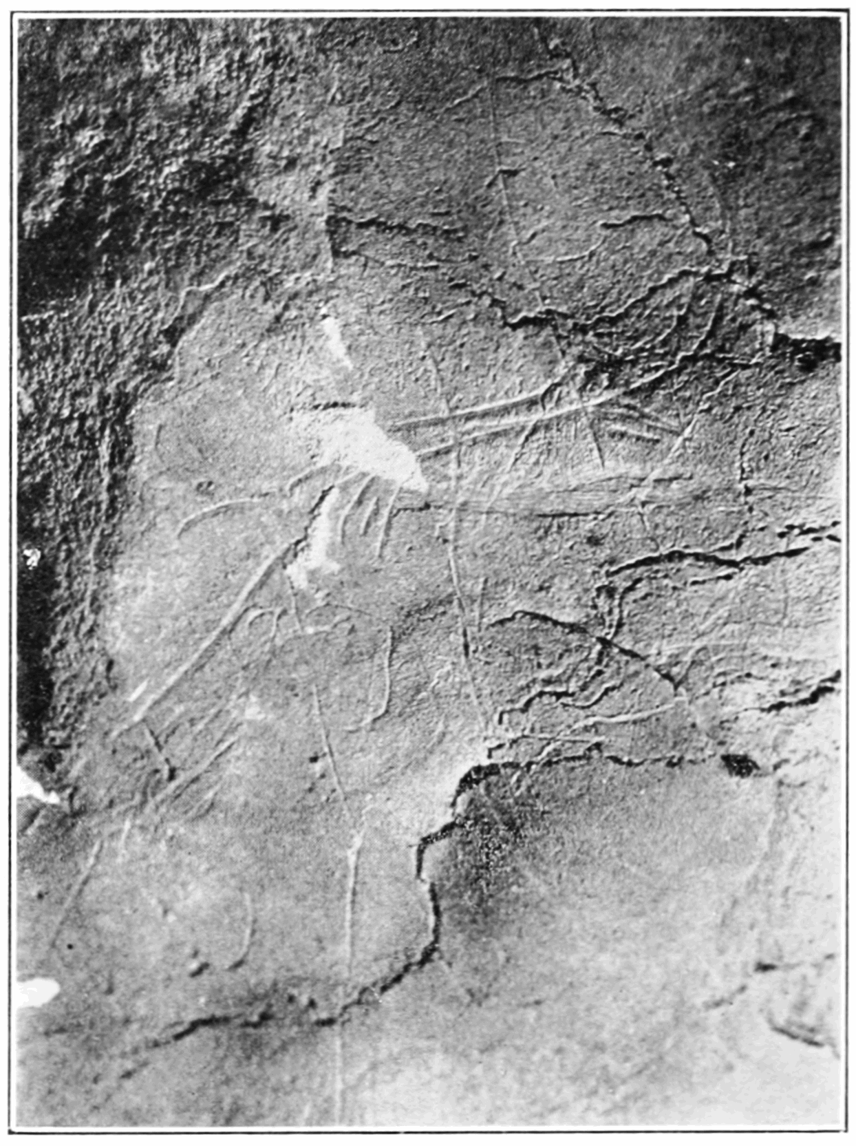 Head of reindeer engraved on cavern wall at Tuc d'Audoubert